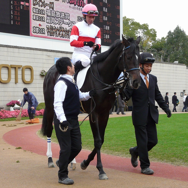 Danon-Chantilly